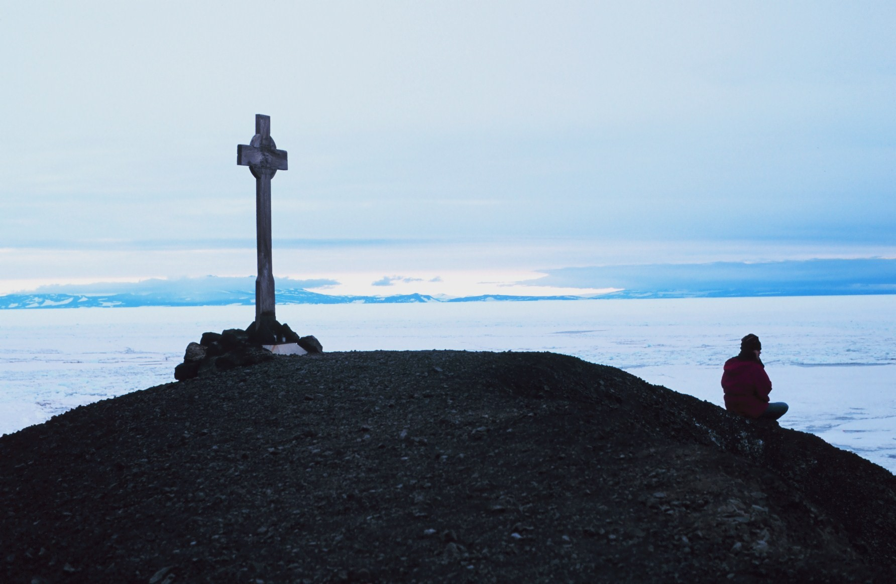 Vince's Cross at Hut Point Peninsula, McMurdo Station, Antarctica. Named for George Vince, a member of the Scott Discovery Expedition, who drowned nearby.